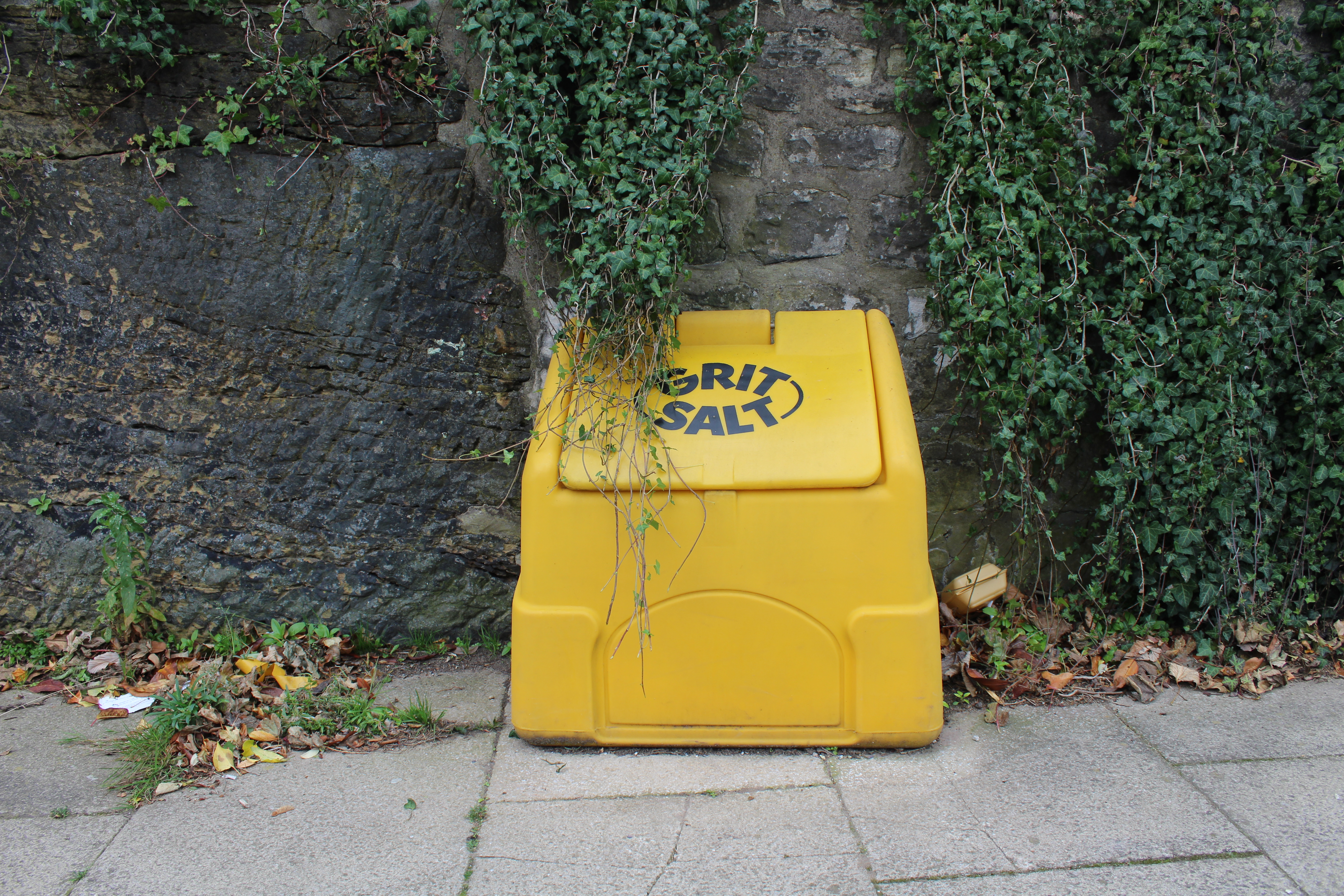 Context of the mark; i.e. behind the grit bin